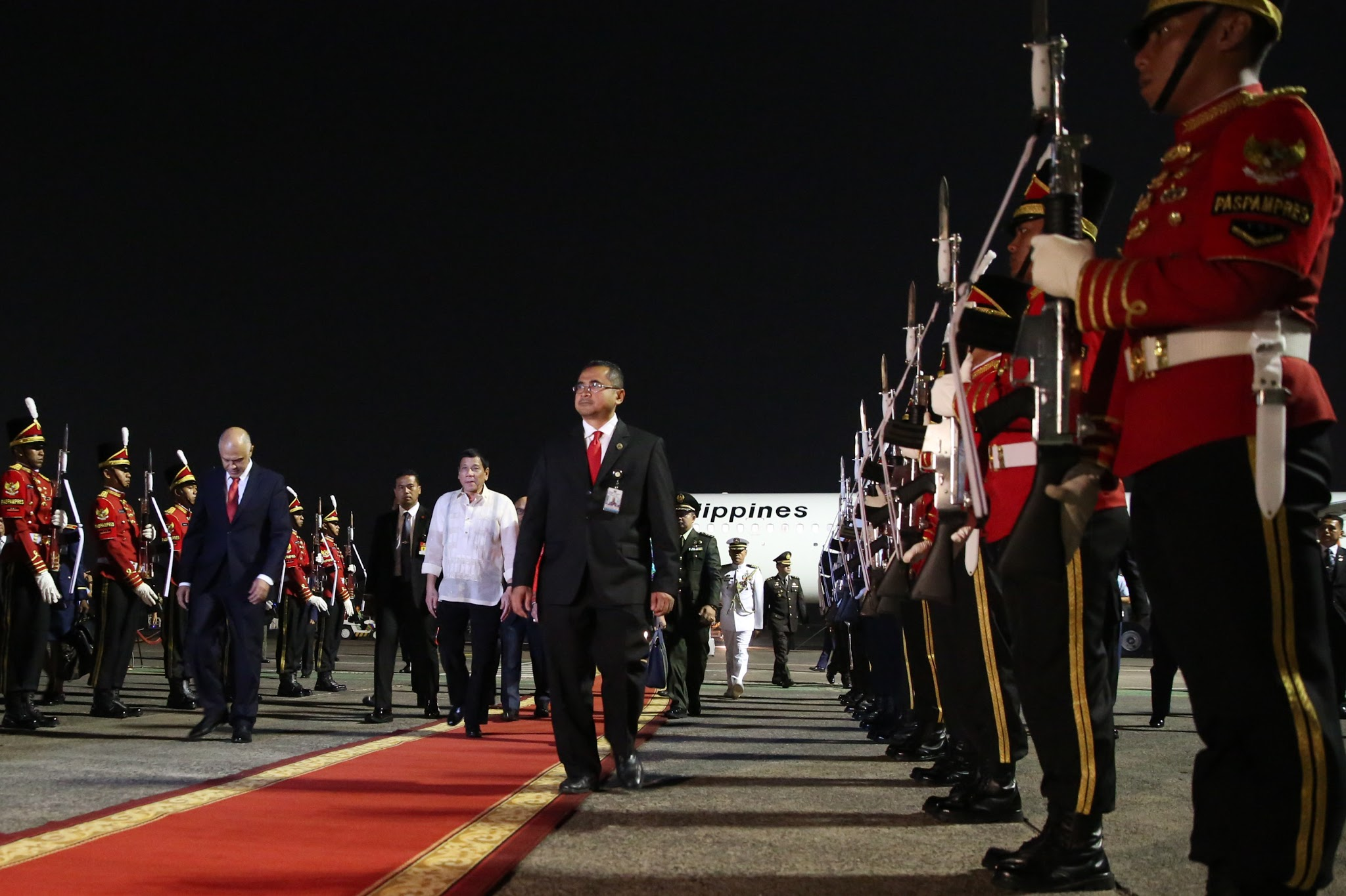 President Rodrigo Duterte walks past Indonesian honor guards at Halim Perdanakusuma Airport in Jakarta on September 8. KING RODRIGUEZ/PPD